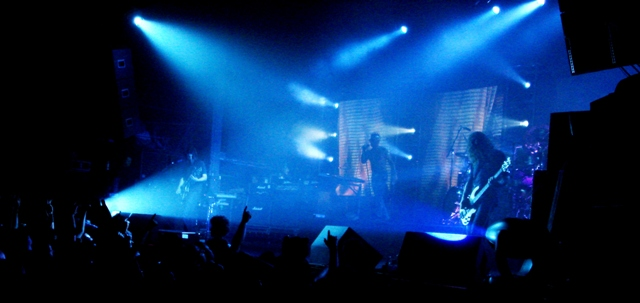 Tool performing live in Barcelona in 2006. Visible are Adam Jones, Maynard James Keenan, Justin Chancellor and Danny Carey, from left to right. Taken with a Sony DSC-W100. Taken on May 29, 2006. Uploaded to on January 16, 2007.